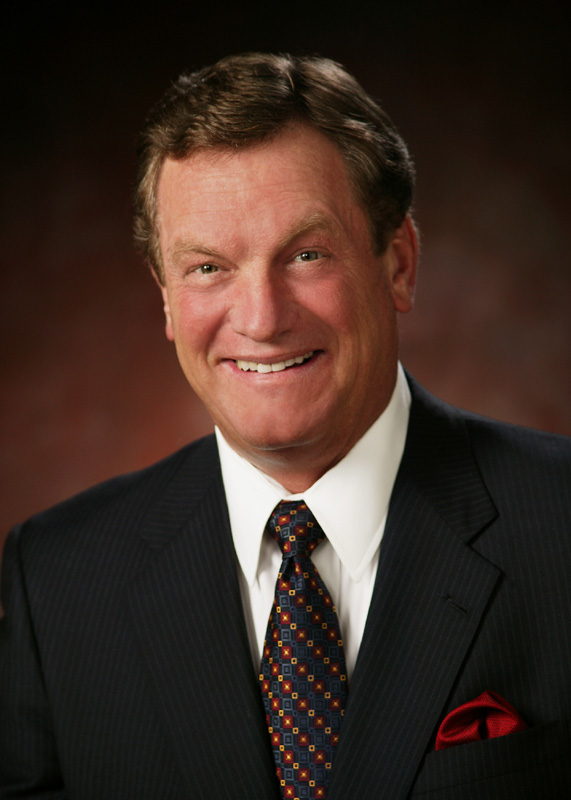 Mike Simpson, member of the United States House of Representatives.